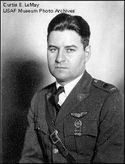 Airman Curtis LeMay in 1929